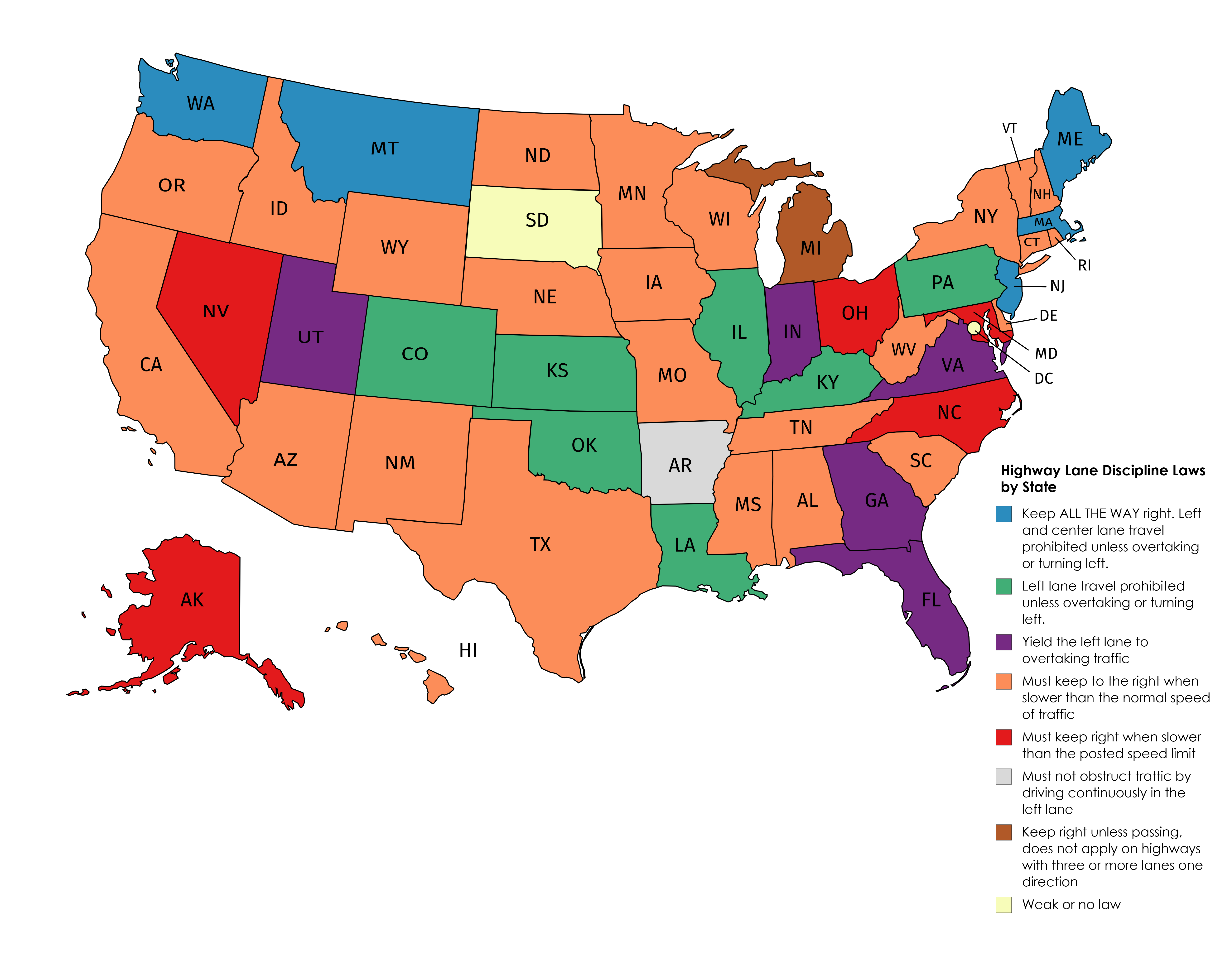 A graphical summary of lane discipline rules in each U.S. state and the District of Columbia